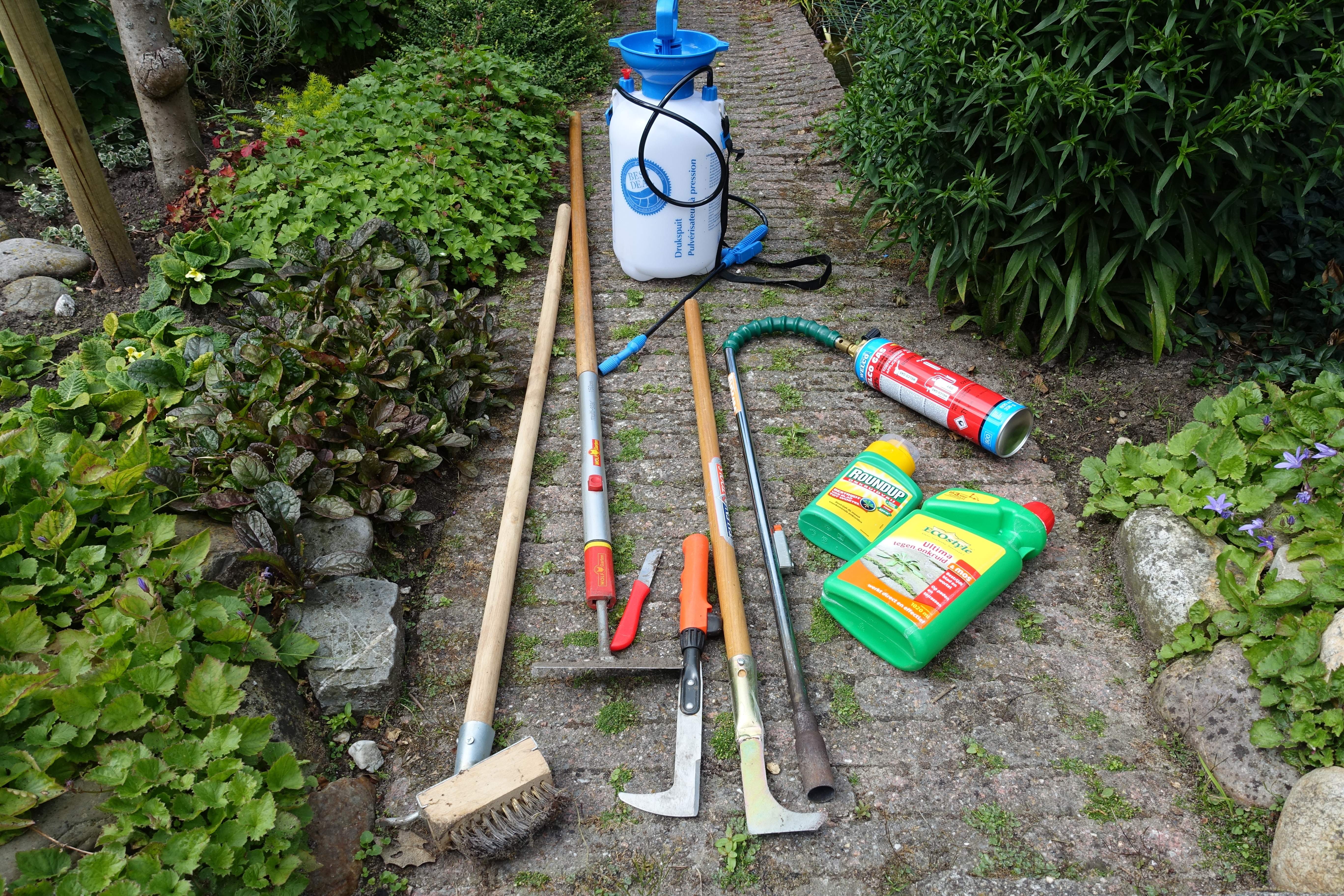 Various tools for weed control in a garden. So much tools, but still the weeds are growing between the stones.